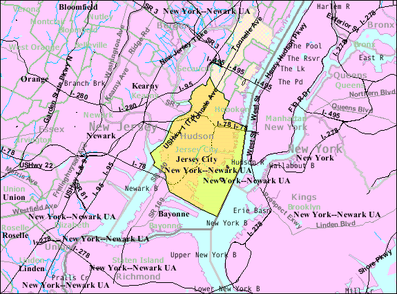 Census Bureau map of Jersey City